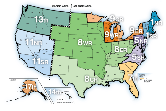 USCGAux organizational map